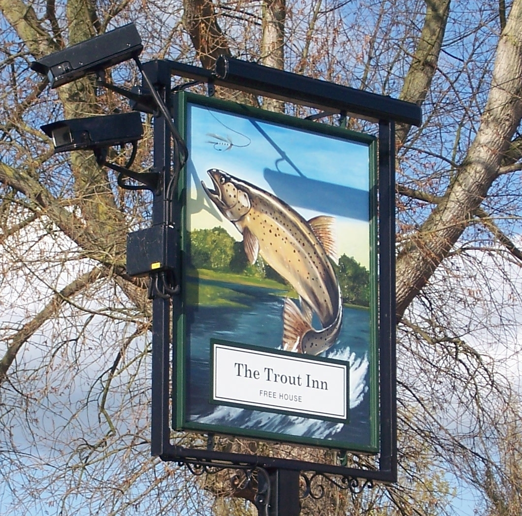 The sign outside the Trout Inn at Wolvercote, Oxfordshire